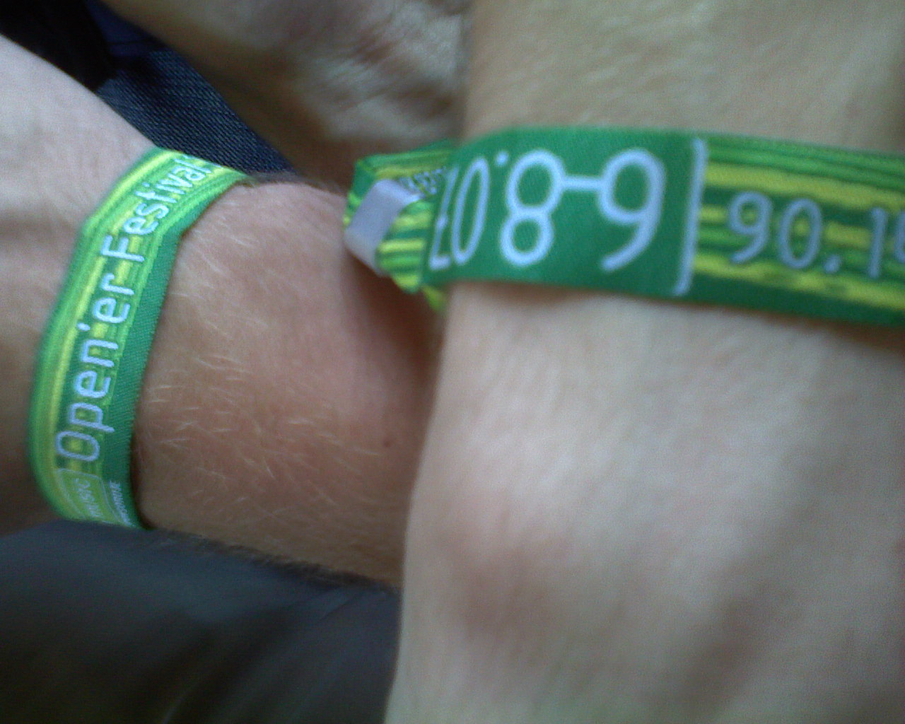 (Heineken Open'er festival 2006) Tickets are exchanged for special bracelets